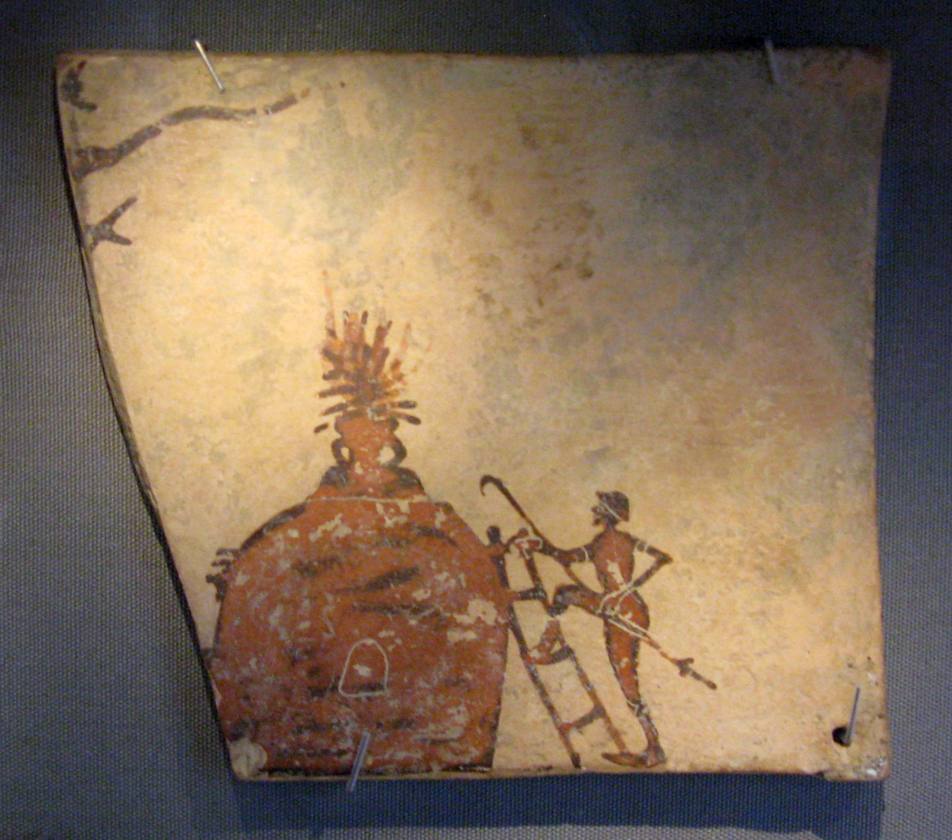 Burning Ceramics, Corinthian plaque, 575–550 BC. From Penteskouphia, now Antikensammlung Berlin/Altes Museum